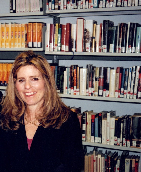 Photograph of Dr. Mona Weissmark in a Library.